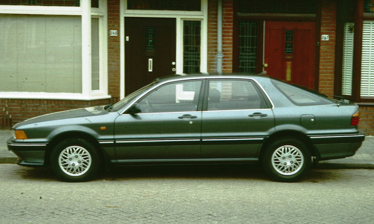 Mitsubishi Galant 6 Liftback in Utrecht